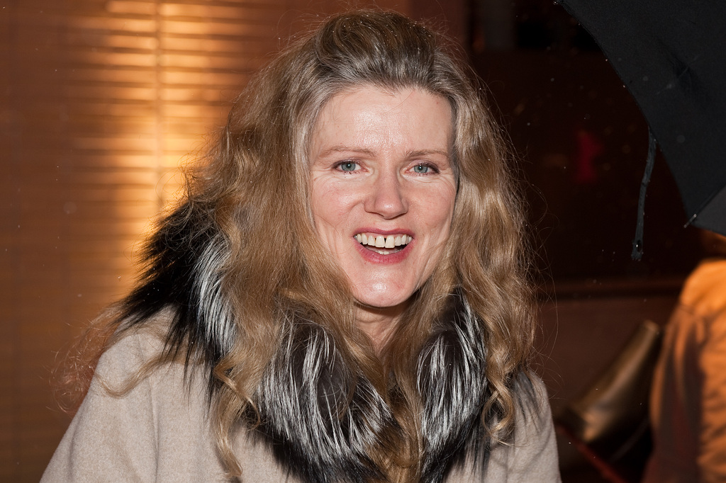 German actress Barbara Sukowa, arriving at the after show opening party of the 60th Berlin International Film Festival.